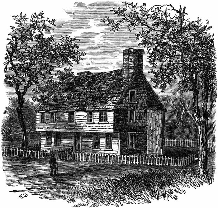 The residence of William Coddington, the first governor of Rhode Island from 1640-1647.